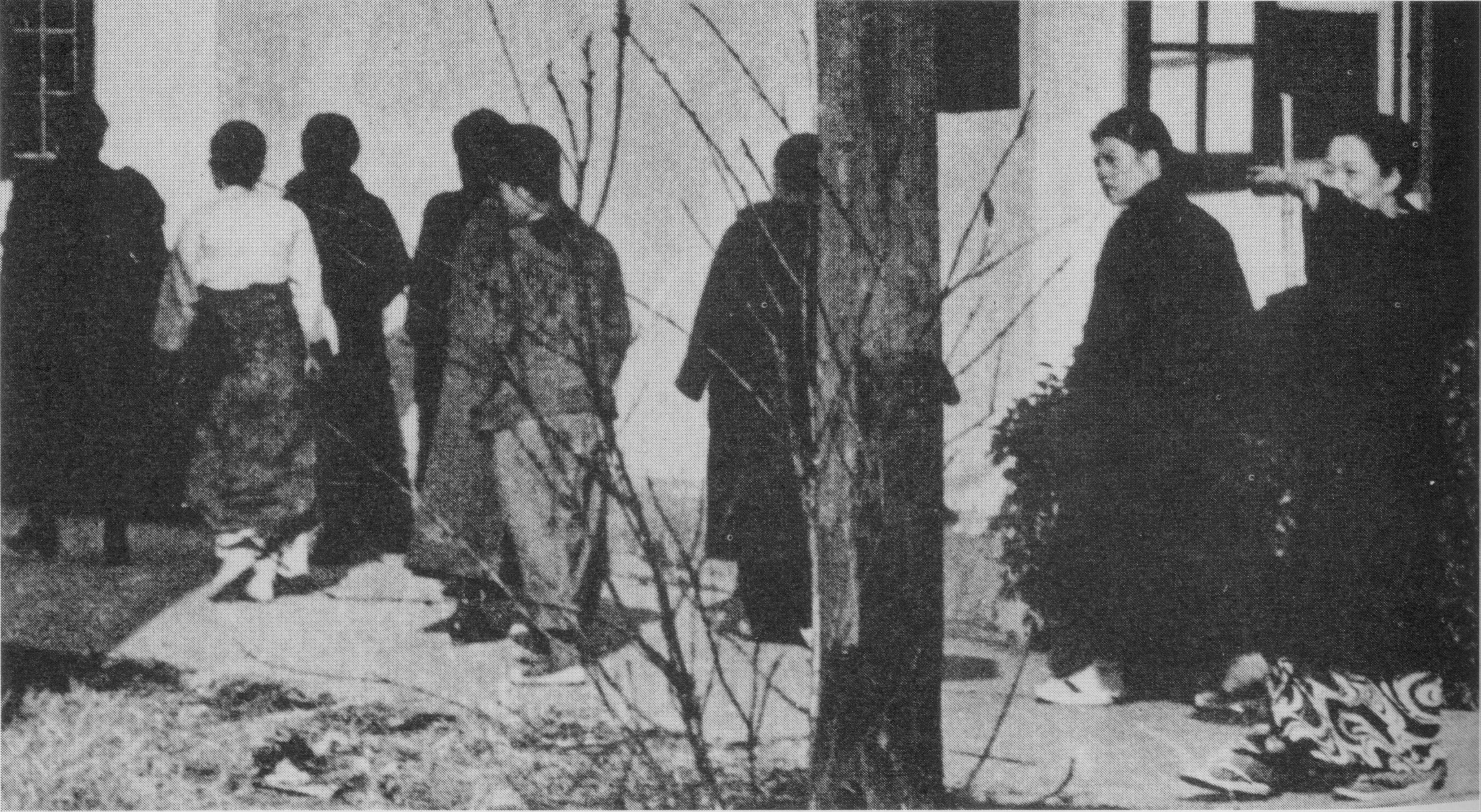 Comfort women